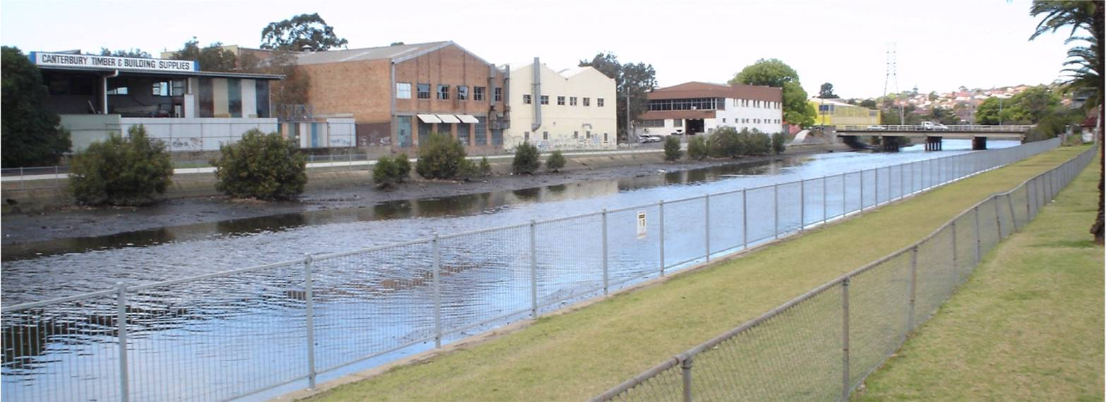 Photo taken by David Latimer (dlatimer) of Canterbury NSW. Released to Public Domain 22Sep2005